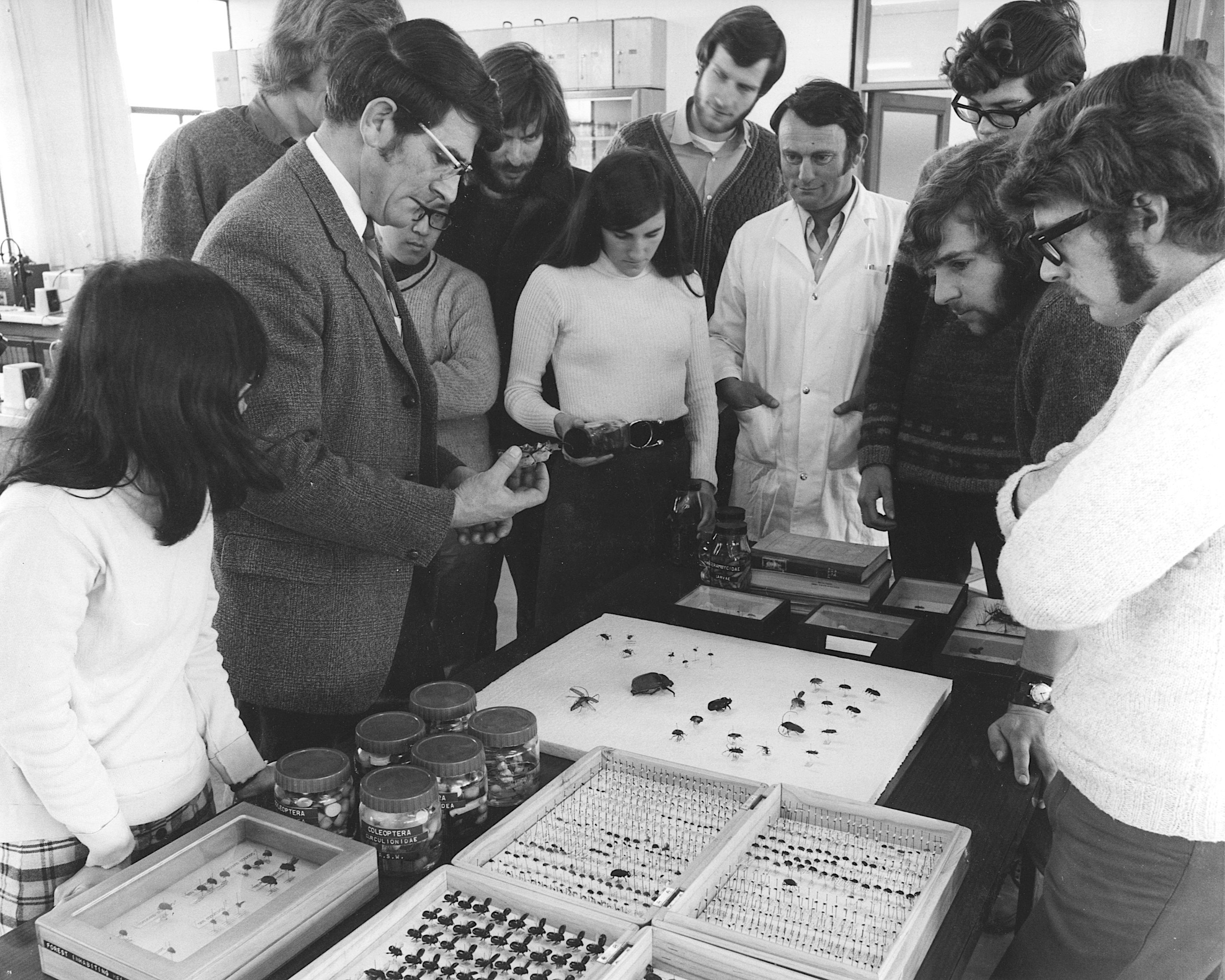 “Dr R. P. Pottinger demonstrating aspects of Coleoptera taxonomy.” From an album of staff photos kept by the Lincoln University Entomology Department.